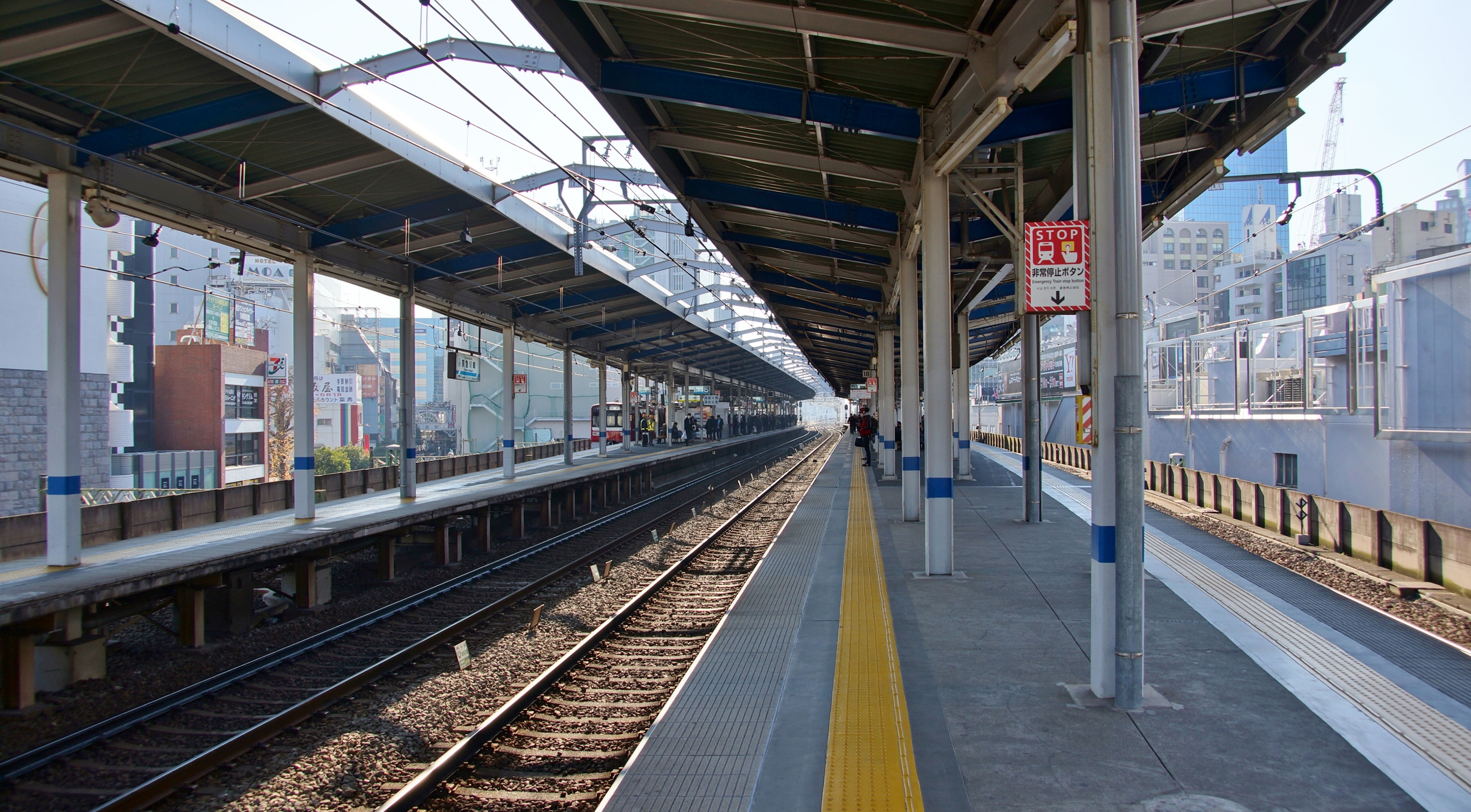 The elevated Keikyu Main Line platforms at Keikyu Kawasaki Station, viewed from the north (Shinagawa) end